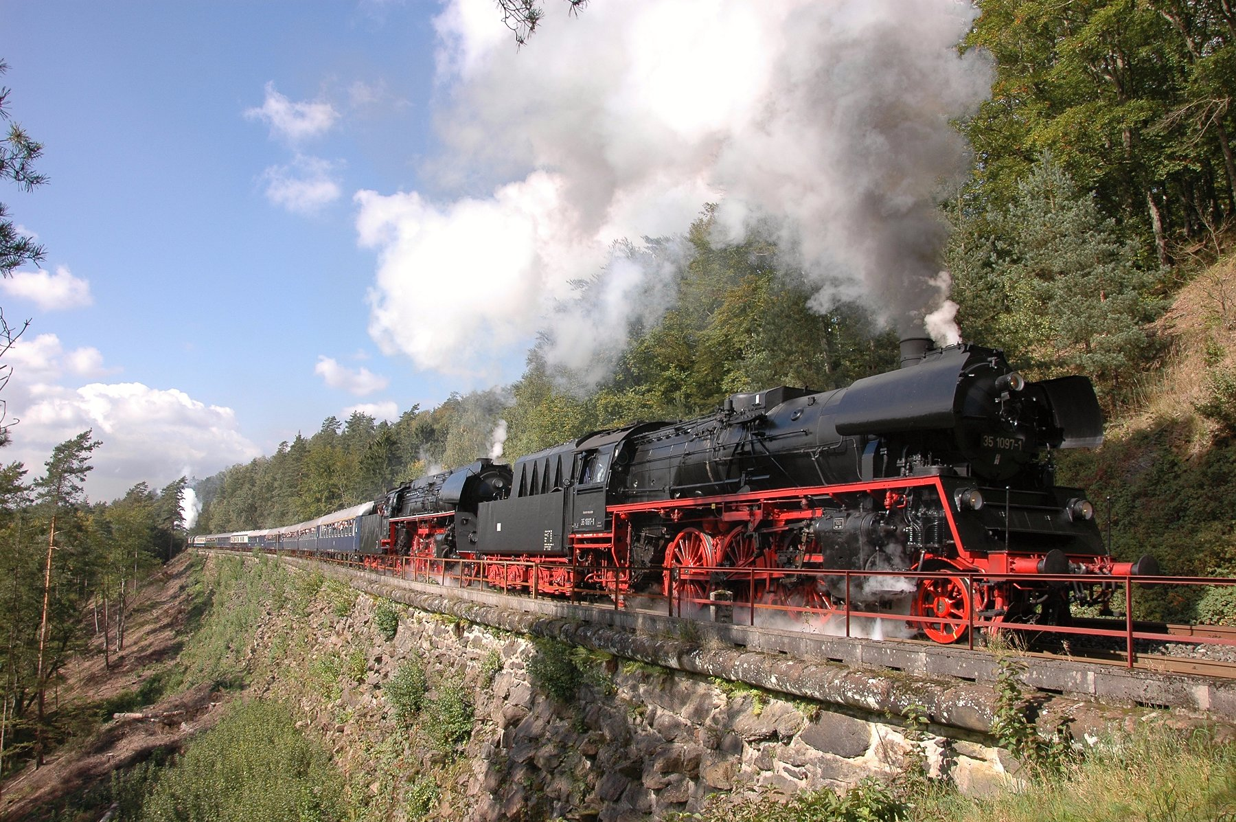 Steam special train at the Schiefe Ebene close to km 79,5: The engine on the top is 35 1097-1, just behind it works 01 1533-7. At the background the steam exhaust of the banking locomotive, 38 1301, is visible.